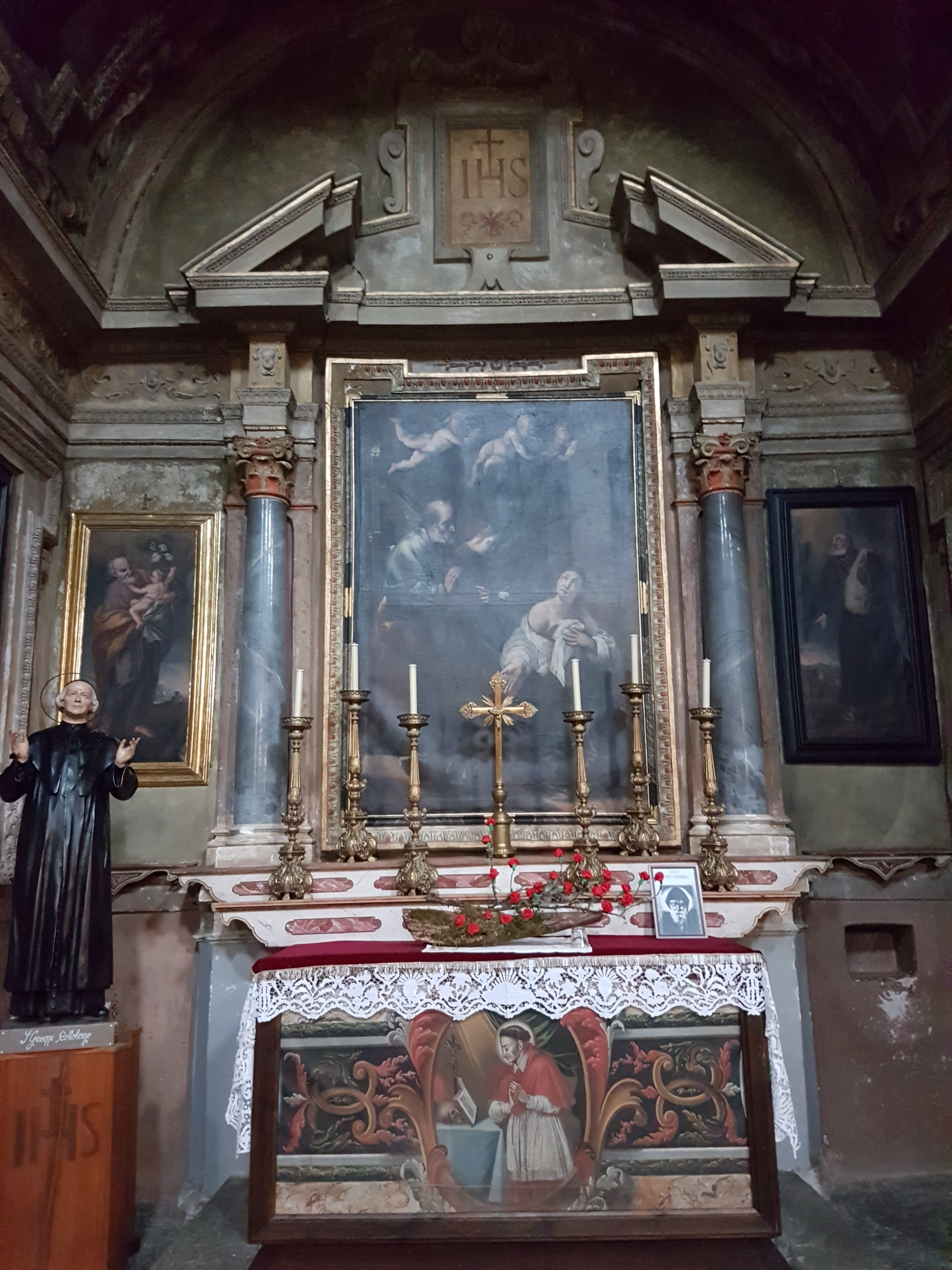 Brusio is a municipality and a circle of the canton of Grisons, Switzerland. Catholic Church hl. Charles Borromeo in Brusio.